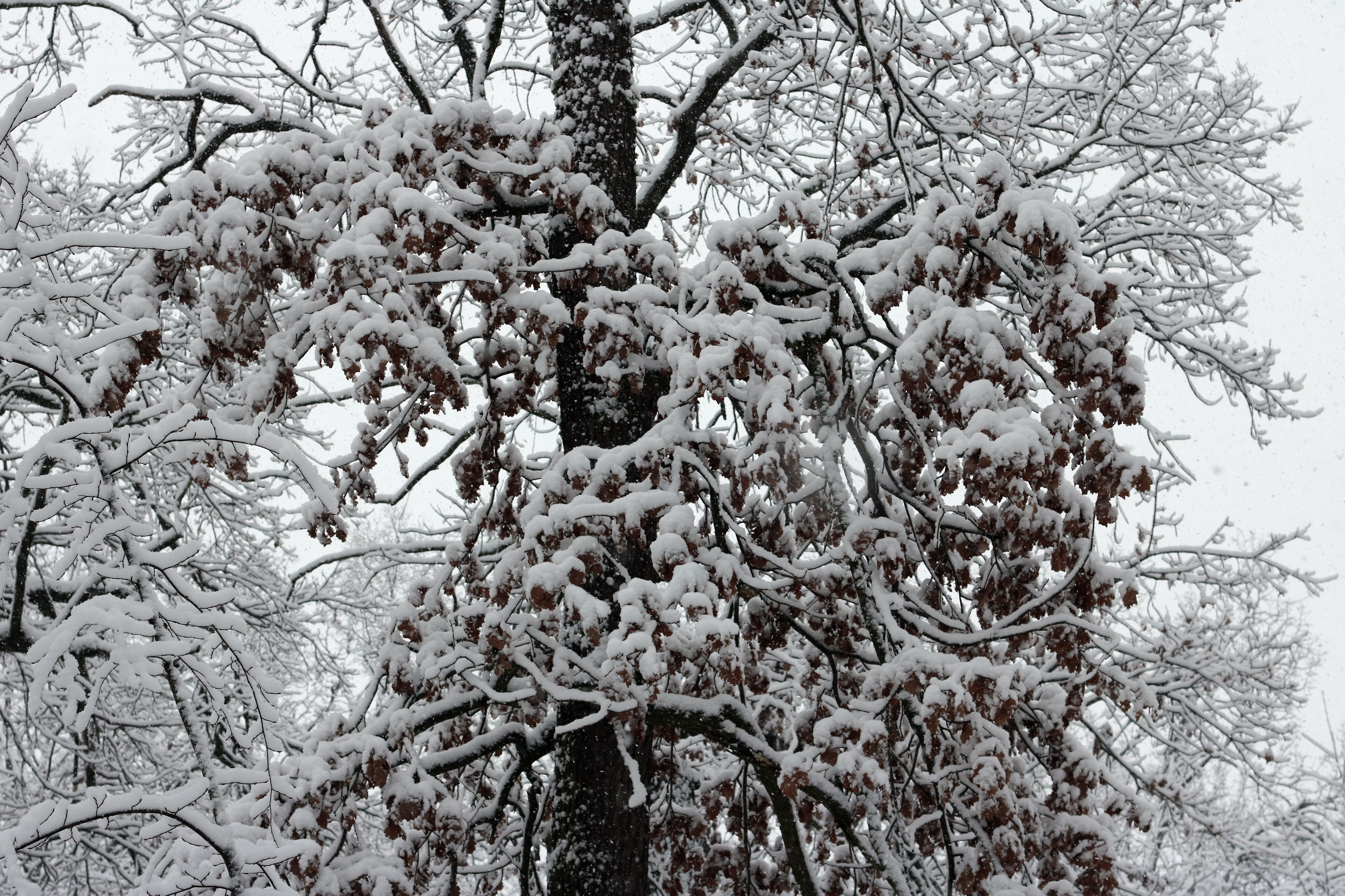 Snow-covered oak (Quercus robur). Forest near the Desenka Railway Halt. Ukraine, Vinnytsia region